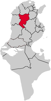 Map of Tunisia with highlighted Siliana Governorate